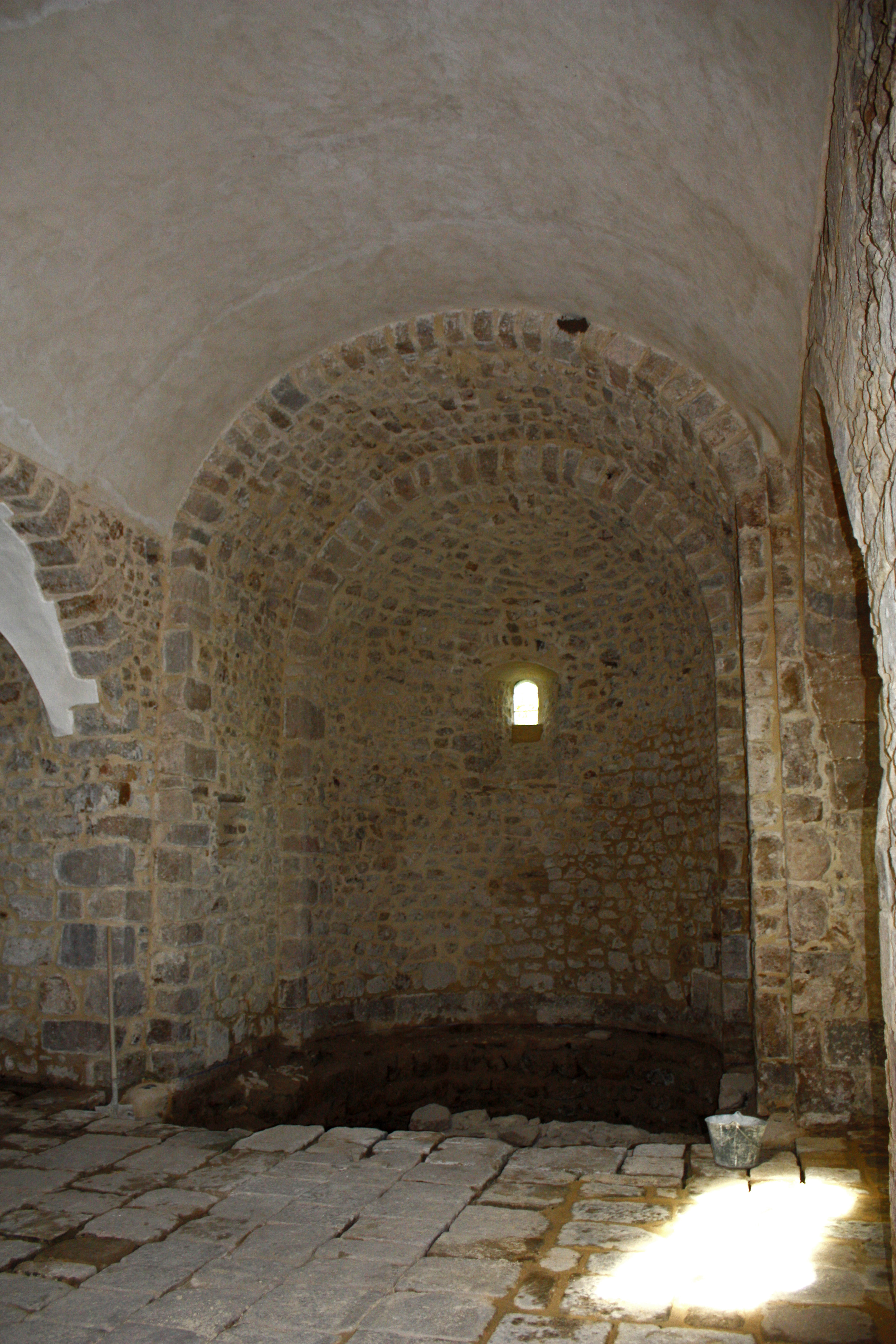 The choir and the nave of the chapel, rebuilt after the Wars of Religion.